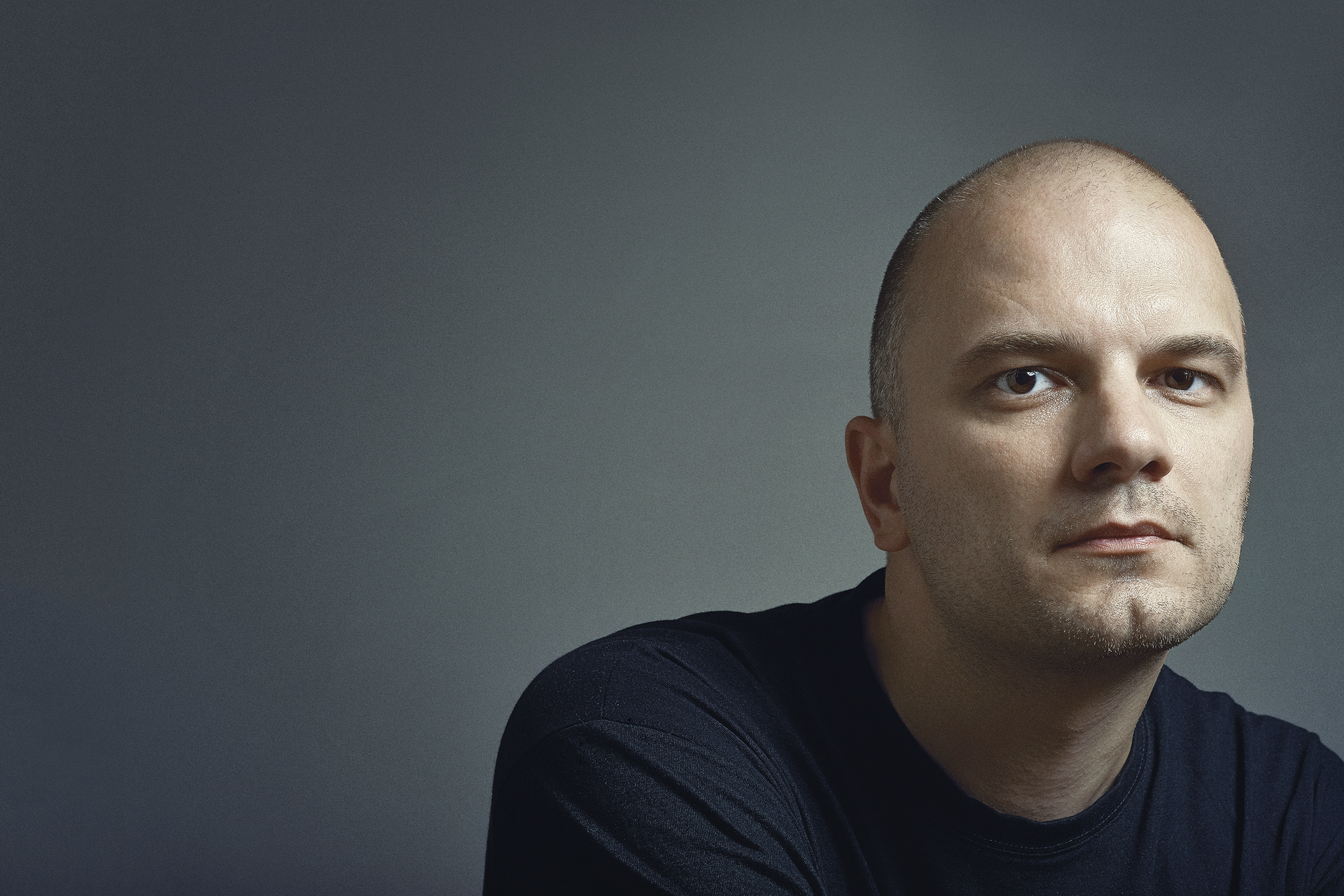 Srdjan Srdic, Belgrade, August 2013